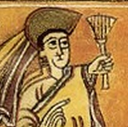 Urraca Fernández